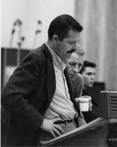 Bill Holman with Stan Kenton in background. Recording session at Capitol Studios, Hollywood CA. circa December 1961